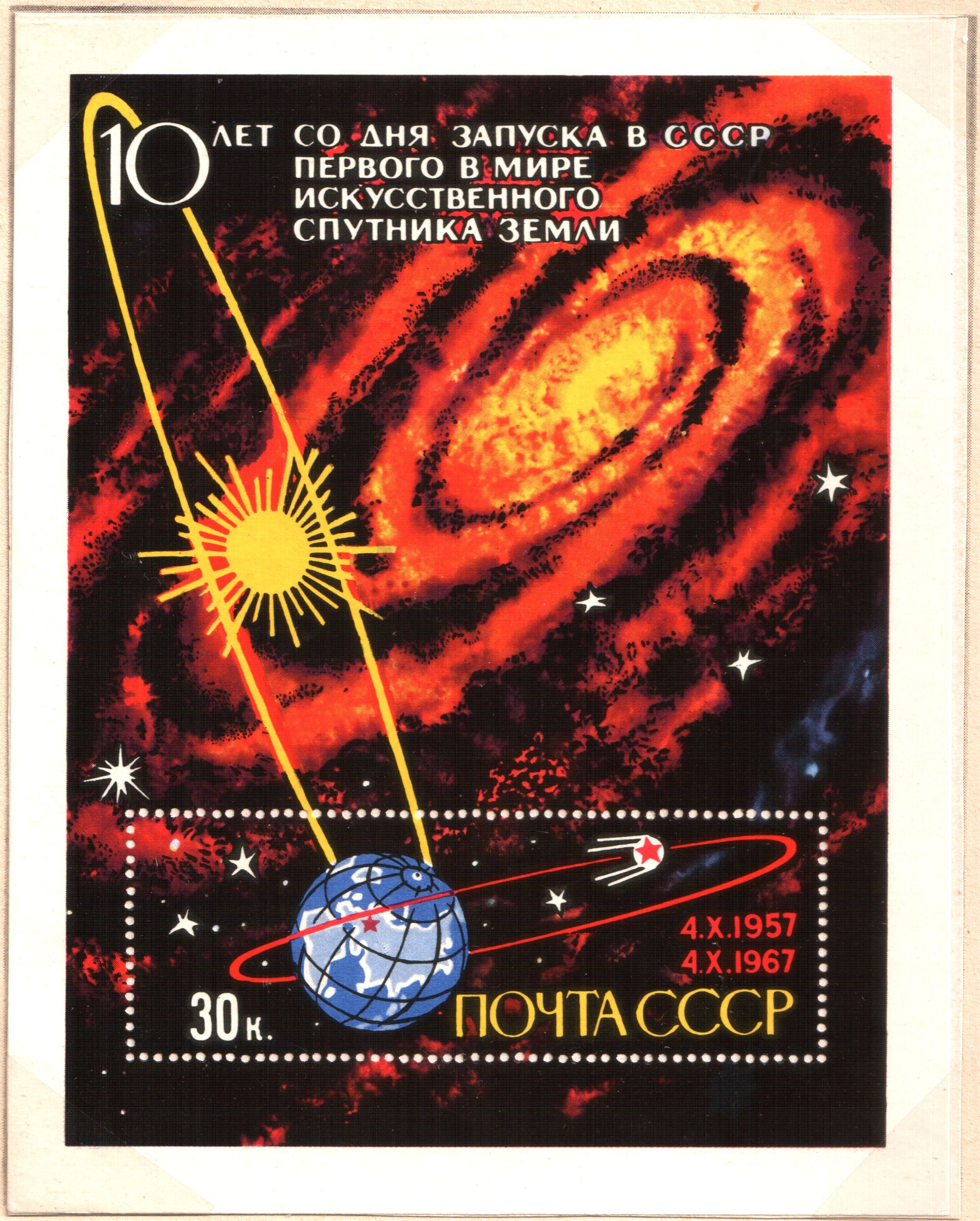 Satellites in Earth orbit. Solar Galaxy